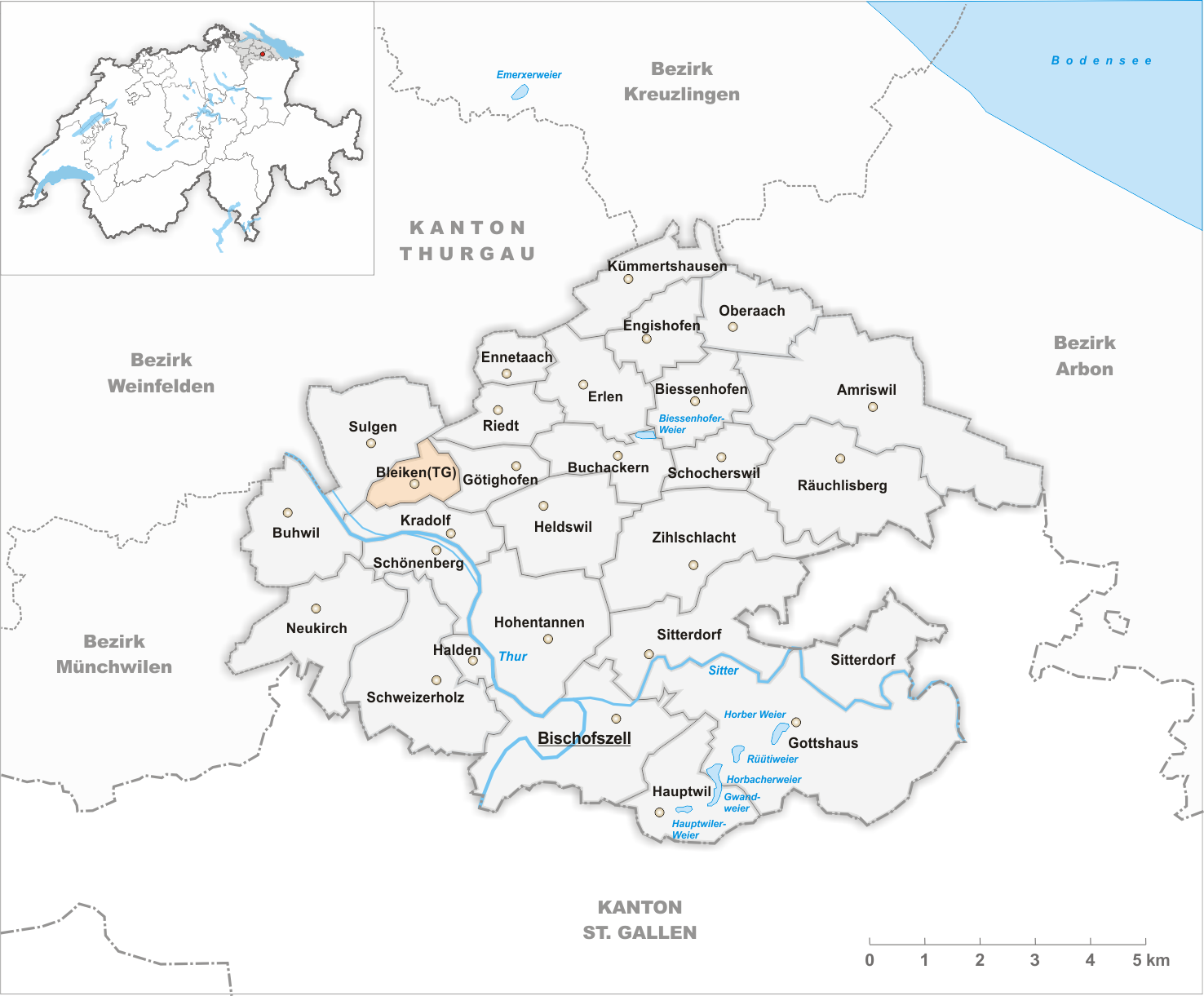 Municipality Bleiken